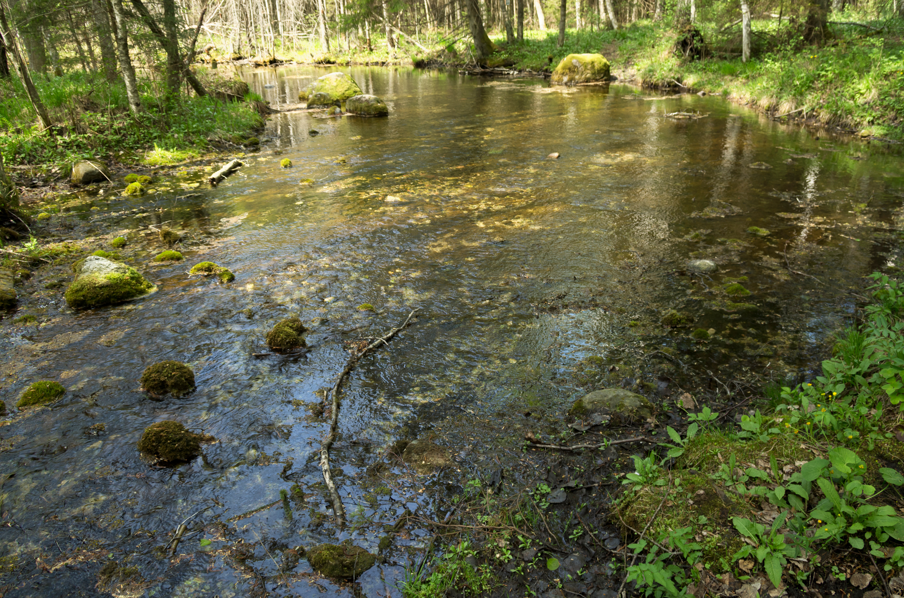 Võllinge brook, Endla Nature Reserve